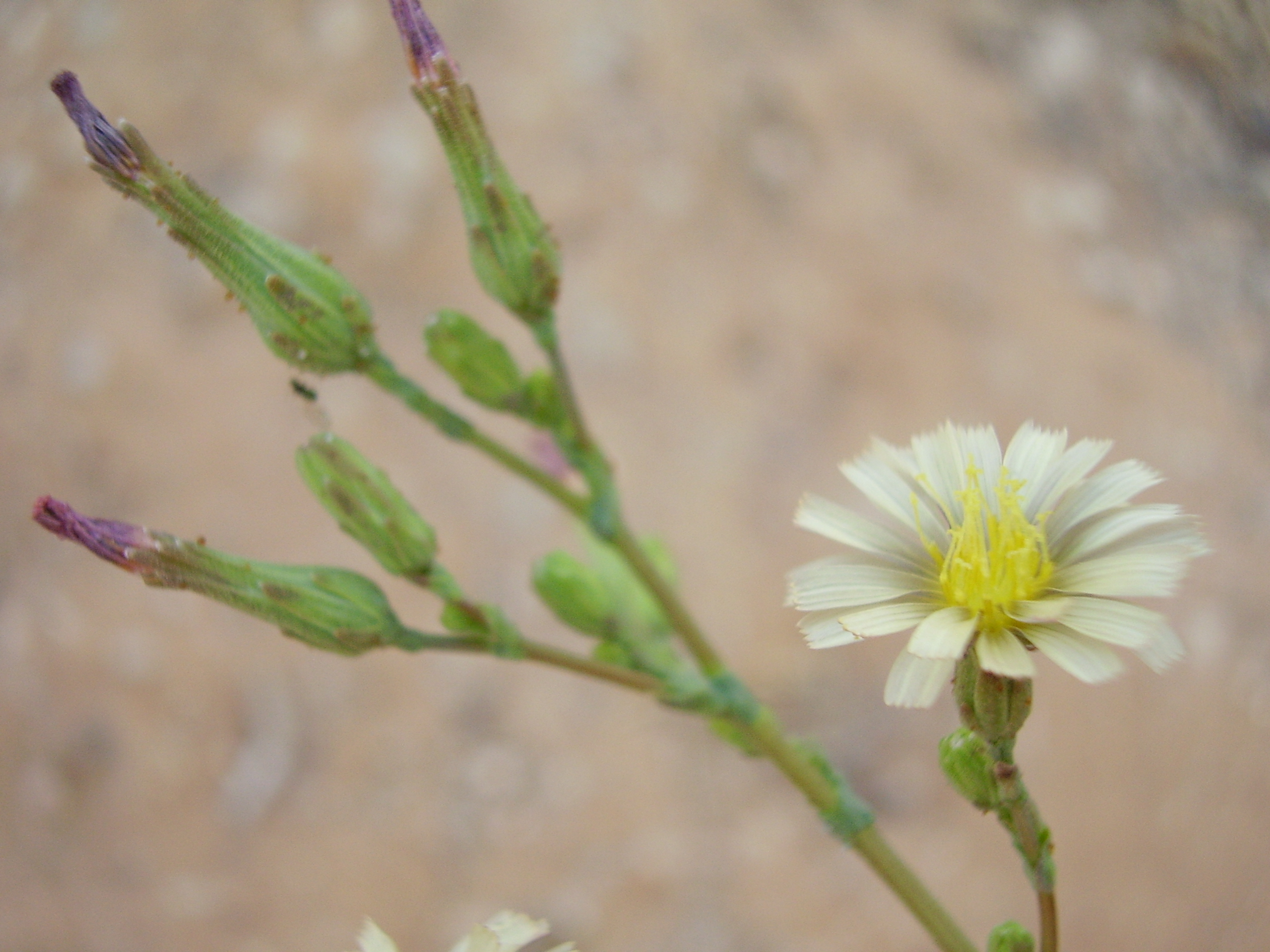 Prickly lettuce (Lactuca serriola) flowers in Karkur, Israel